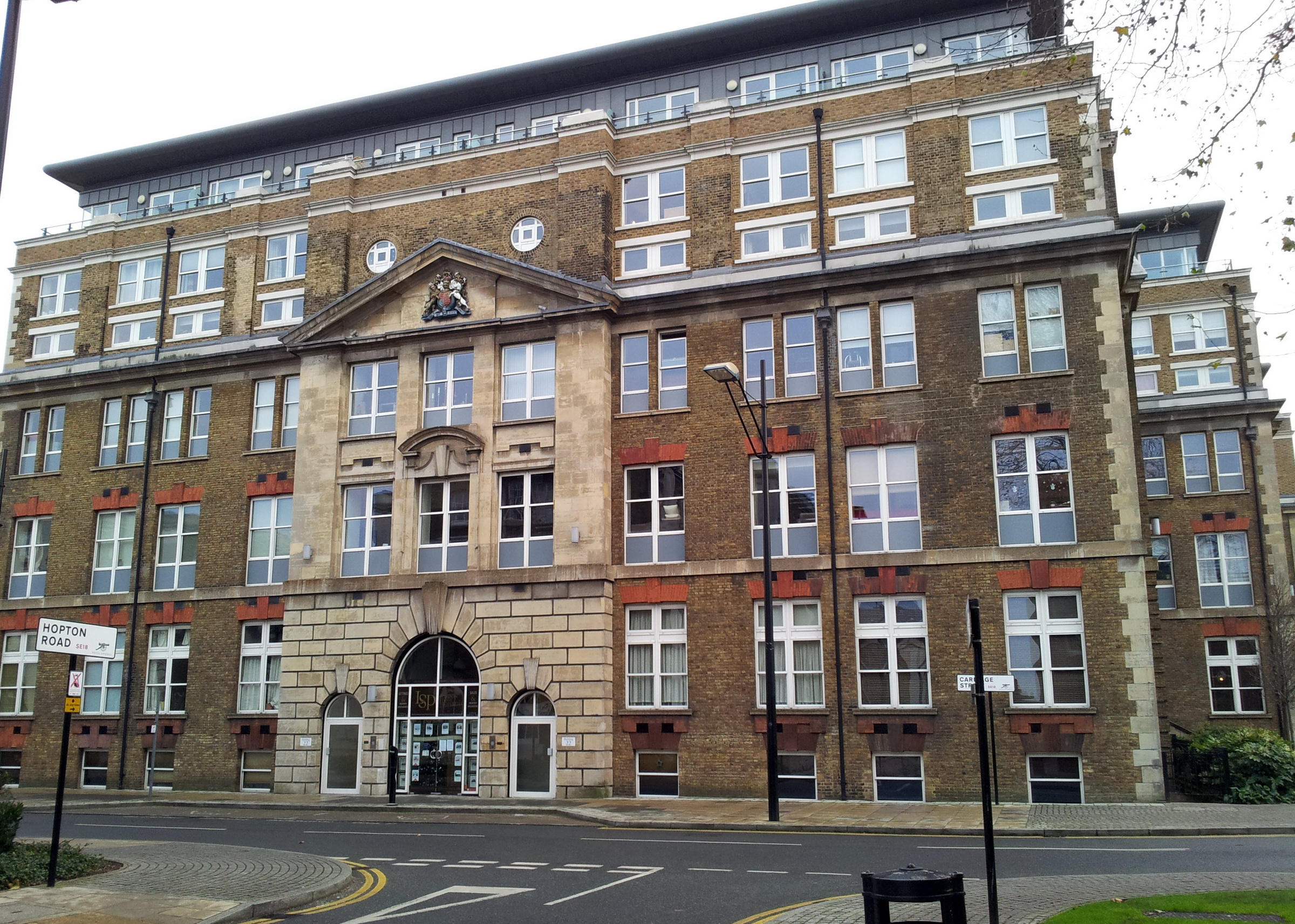 View from Hopton Road of Building 22 (MyHQ) on Cadogan Road in Royal Arsenal, Woolwich, South East London.